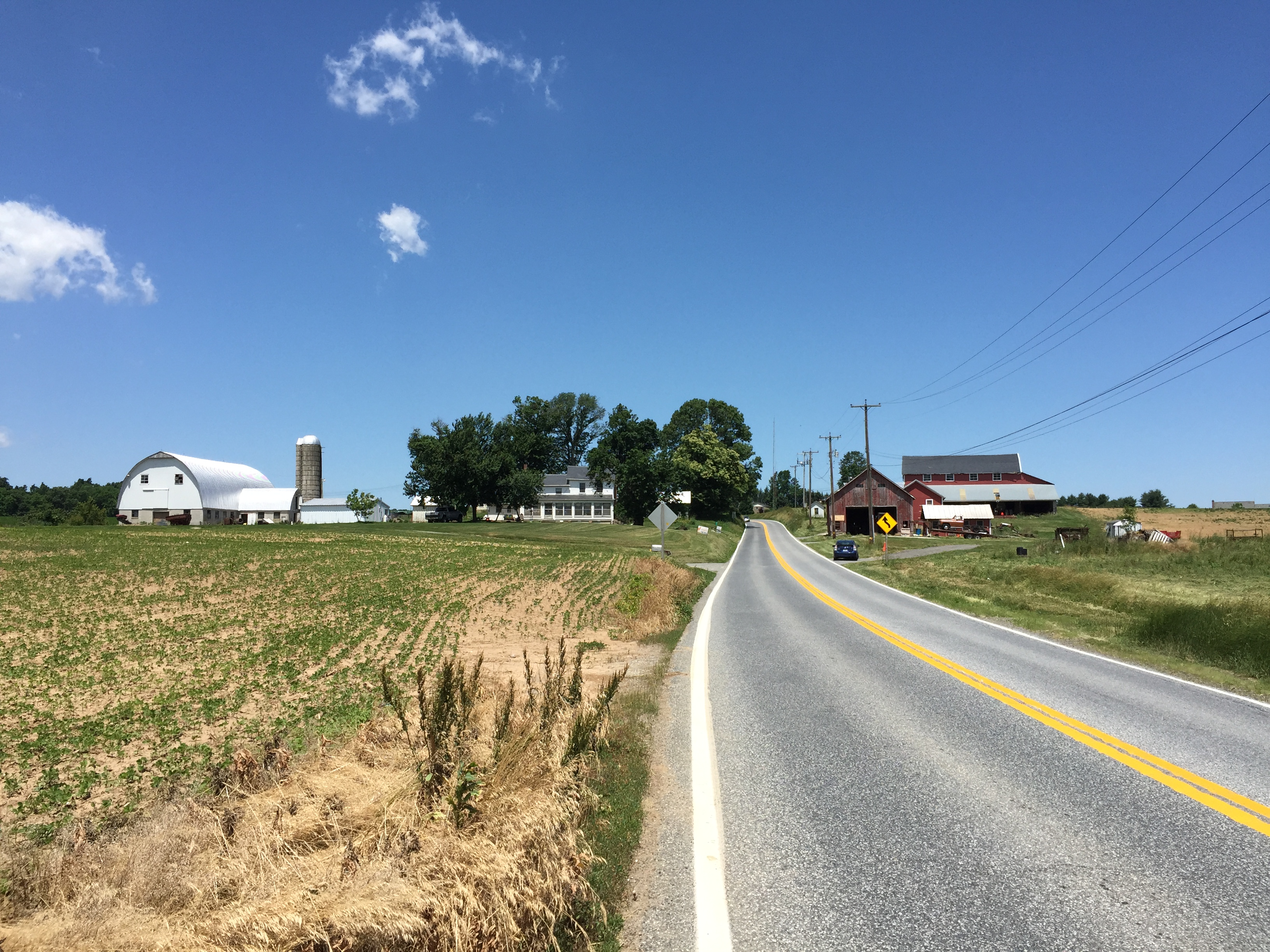 A farm along westbound Maryland State Route 439 (Old York Road) just west of Maryland State Route 23 (Norrisville Road) in Shawsville, Harford County, Maryland